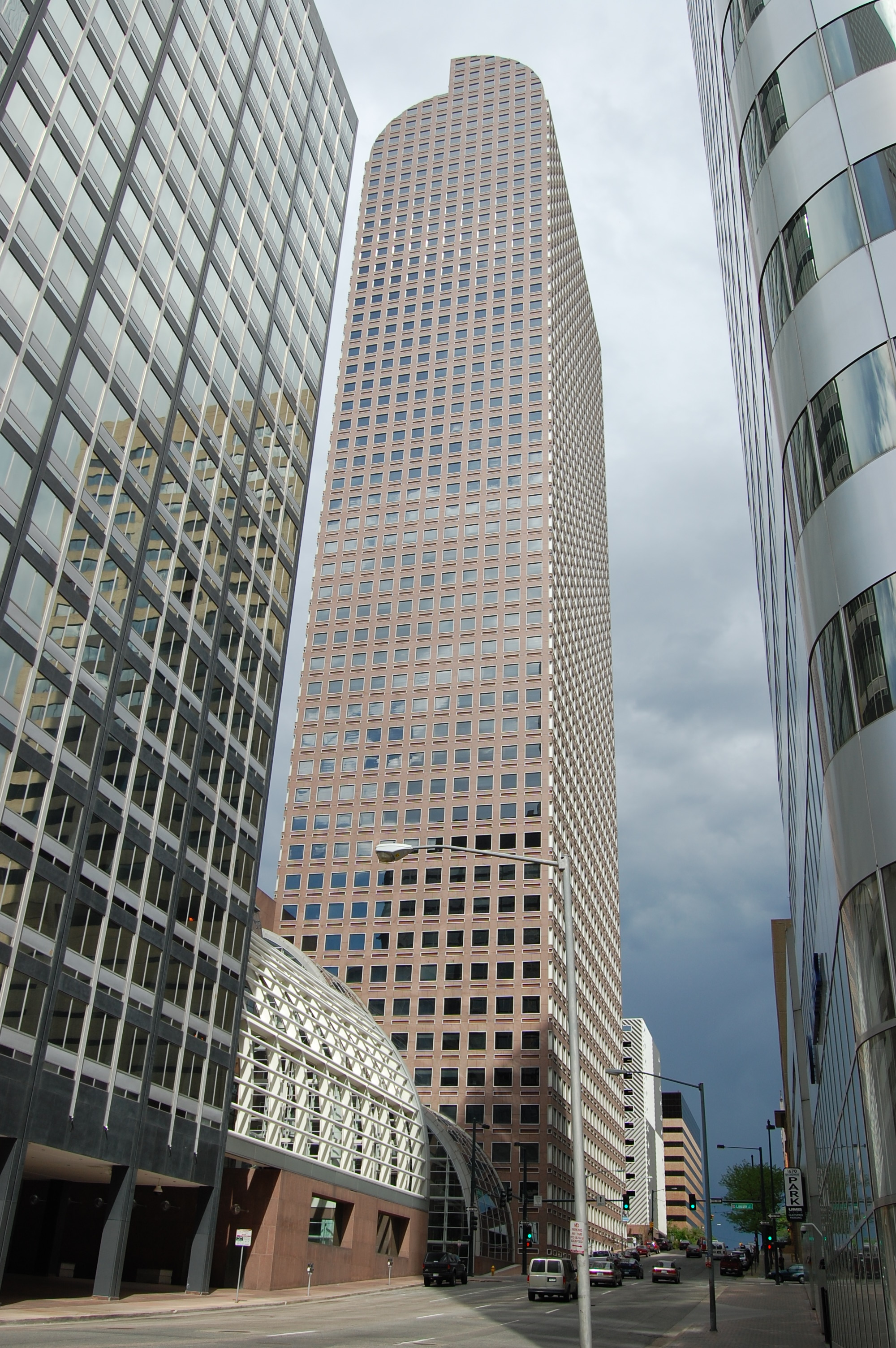 my own shot; release under gfdl